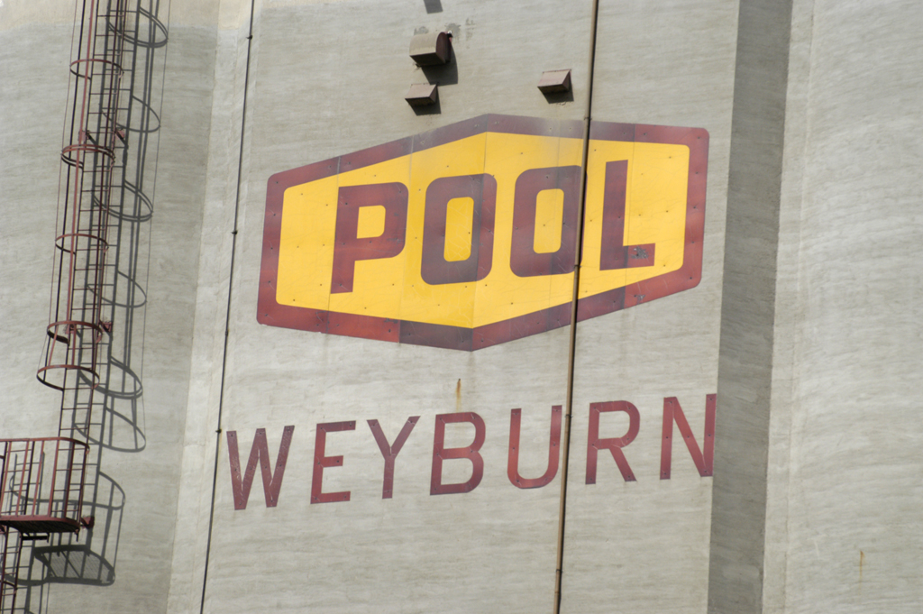 Close up of the location sign on the new Weyburn Pool elevator.